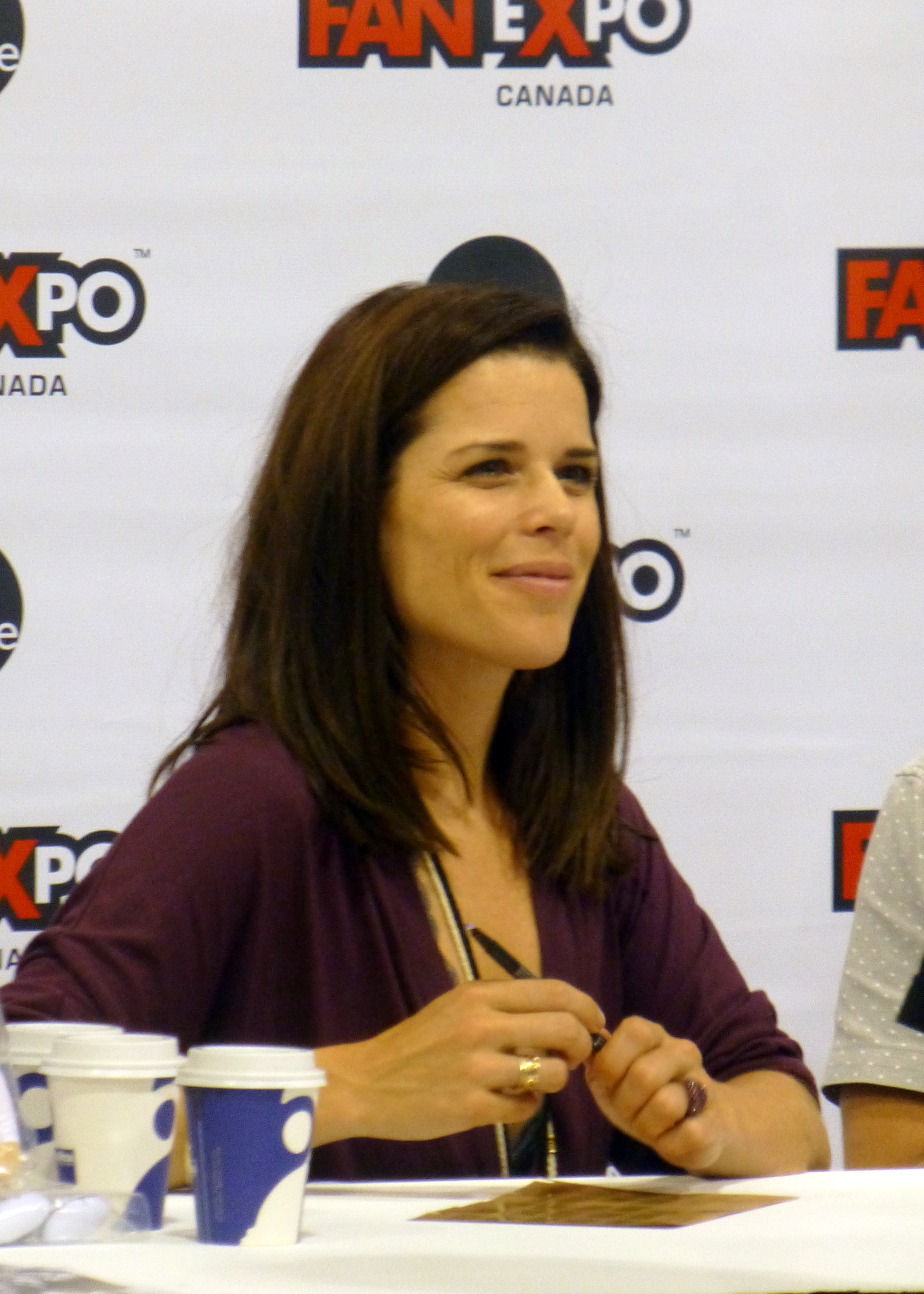 Fan Expo Canada in Toronto in 2015.